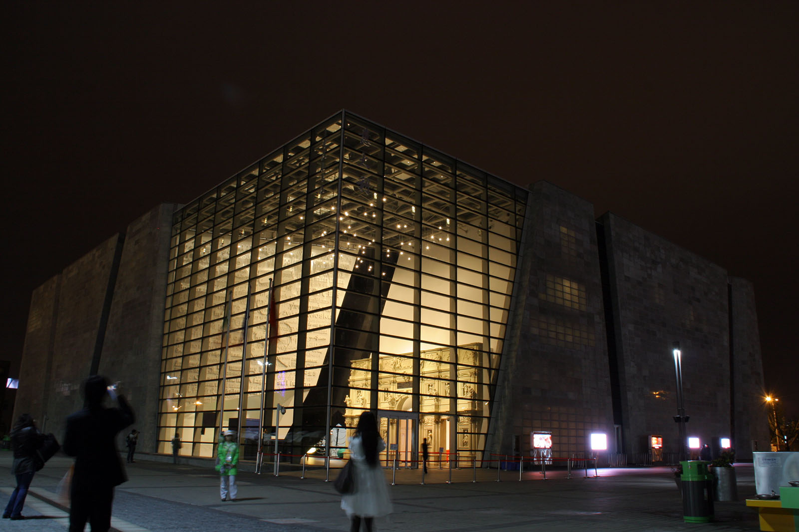 Italy Pavilion of Expo 2010